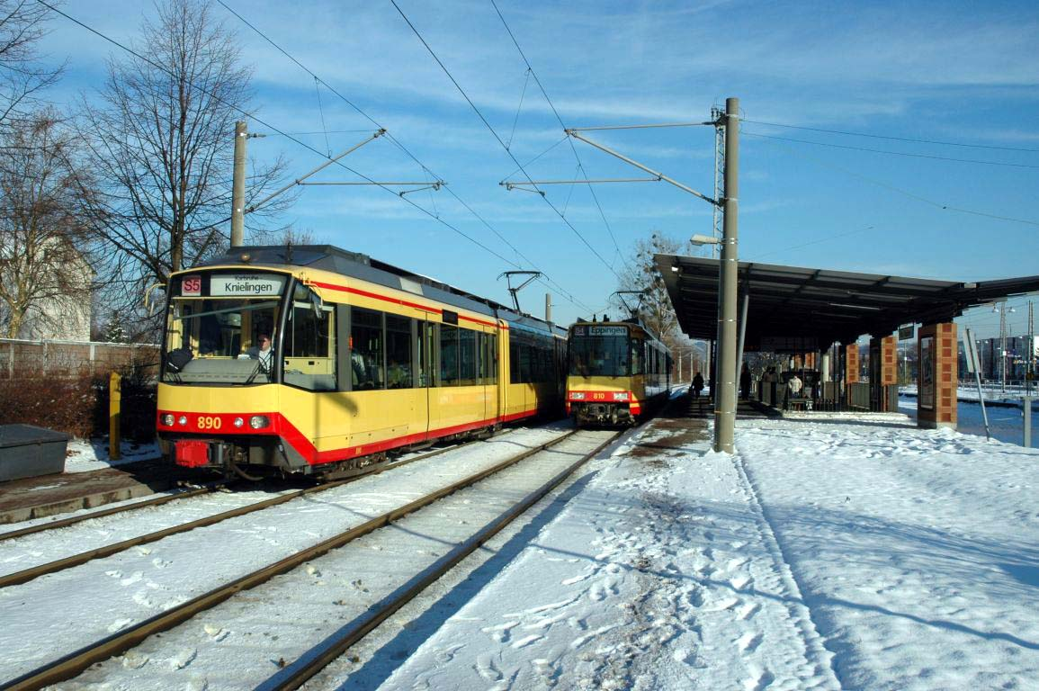 AVG car no. 890 of type GT8-100D, location: Karlsruhe-Durlach, train number: 84784